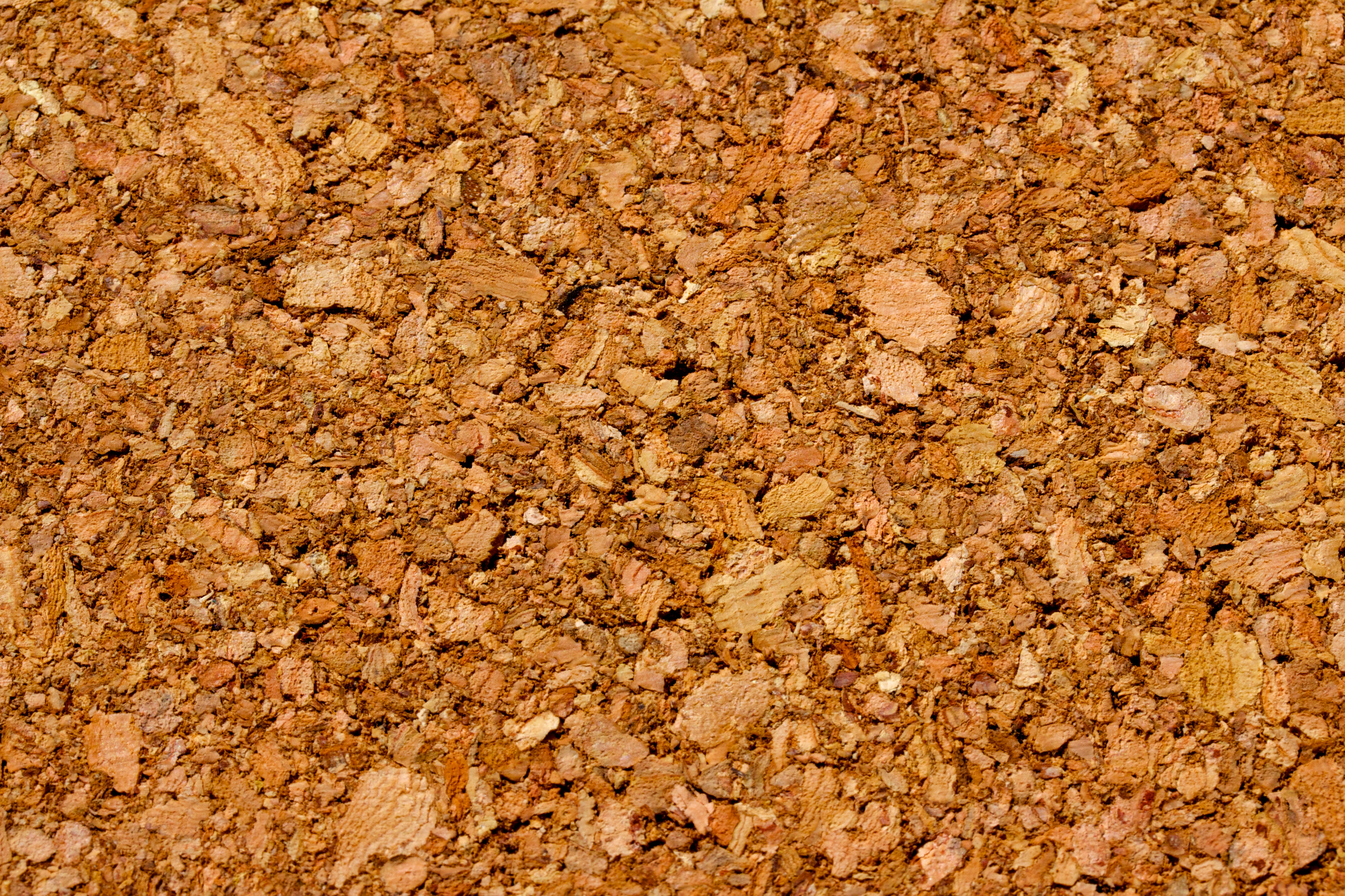 A close up of a cork board